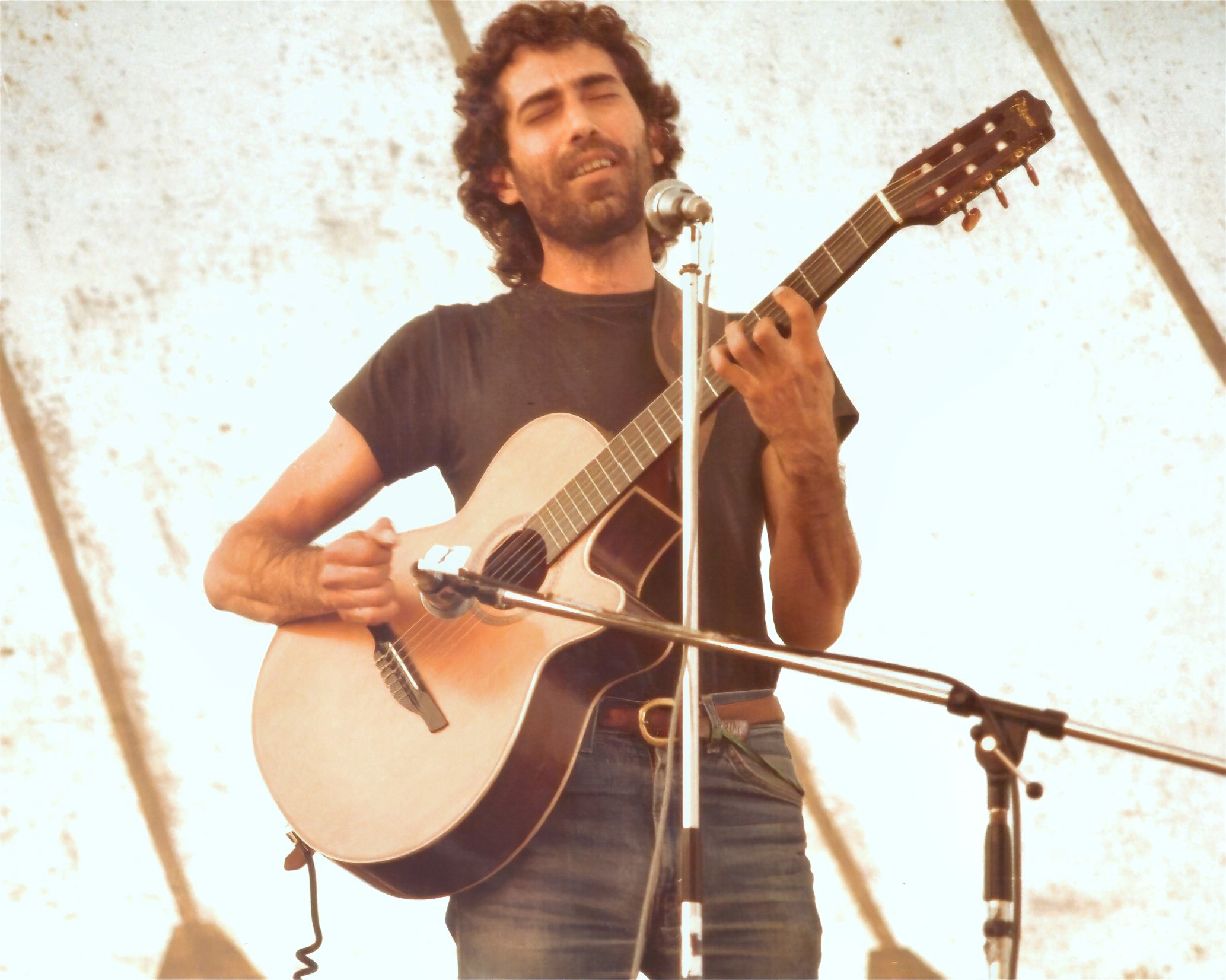 Isaac Guillory, guitarist on stage at the Cambridge Folk Festival, July 1985 (photograph by Tony Rees)